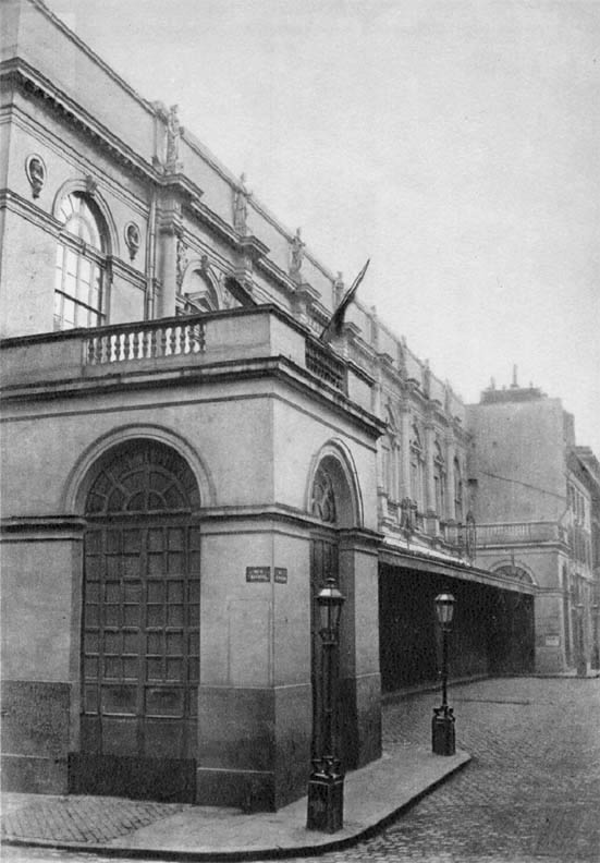 Photo by unknown of the Paris Opera. Right of the front façade.